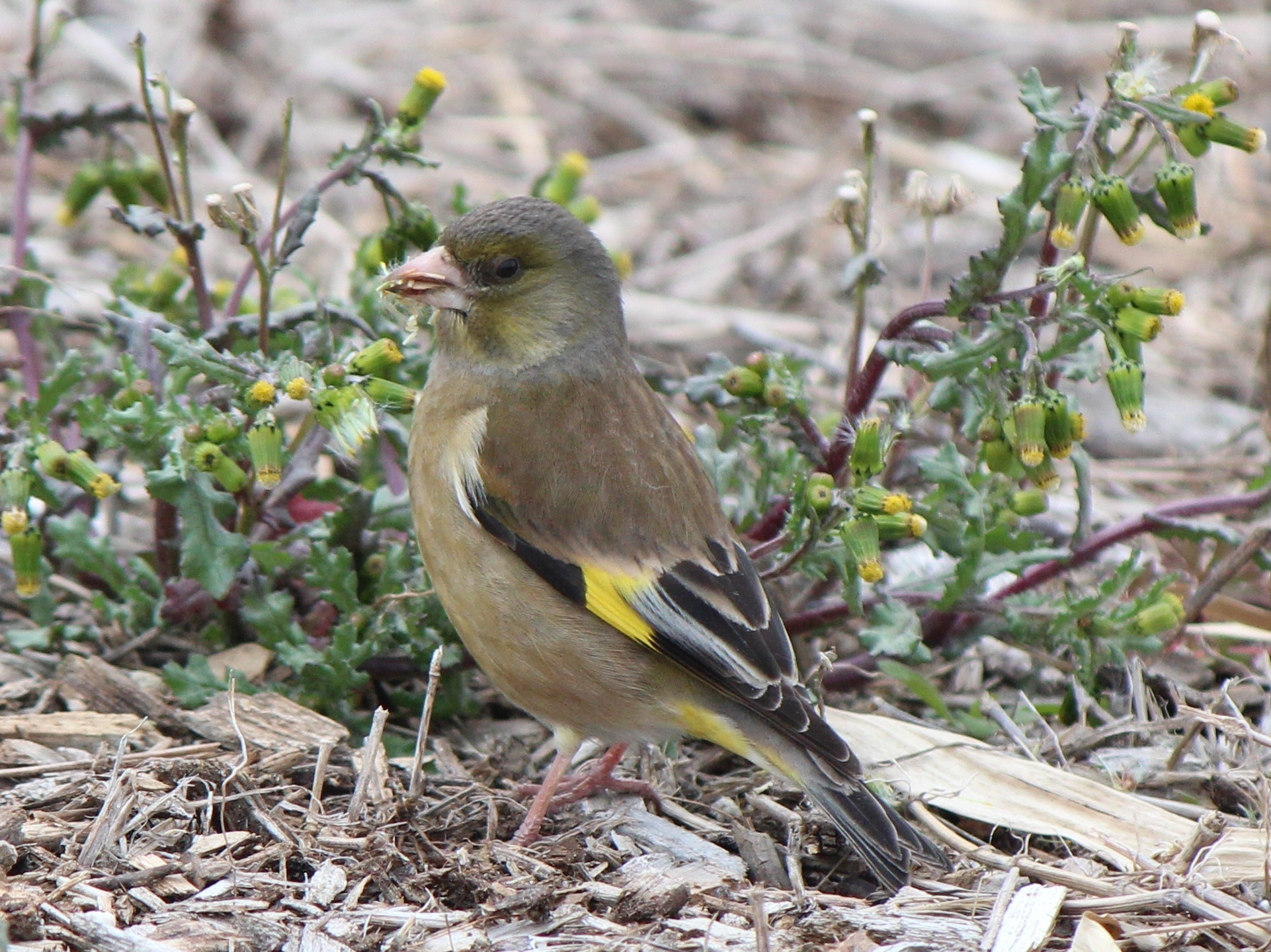 Carduelis sinica minor (Oriental Greenfinch), eating in Japan